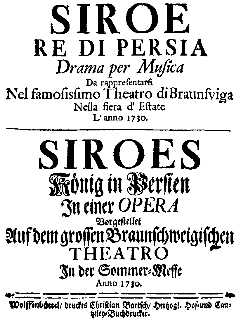 Georg Friedrich Händel - Siroe re di Persia - titlepage of the libretto - Braunschweig 1730